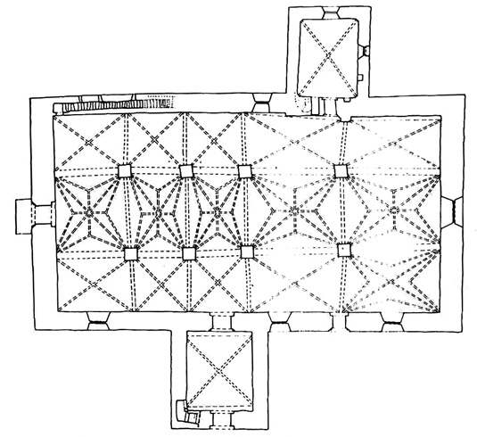 Plan of the church of Lohja, Finland